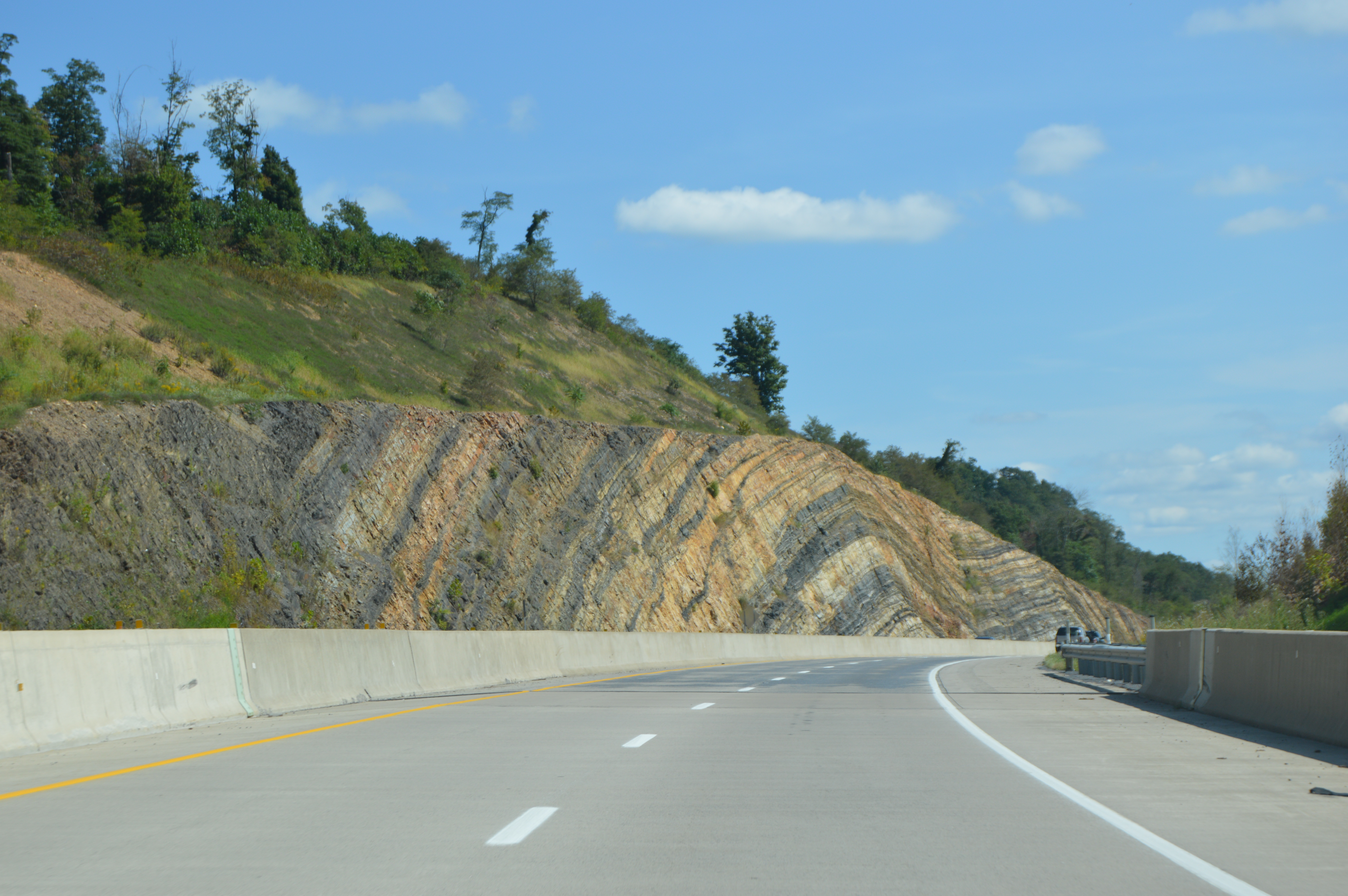 Looking eastward along U.S. Route 322 northwest of Mifflintown in Fermanagh Township, Juniata County, Pennsylvania, United States.